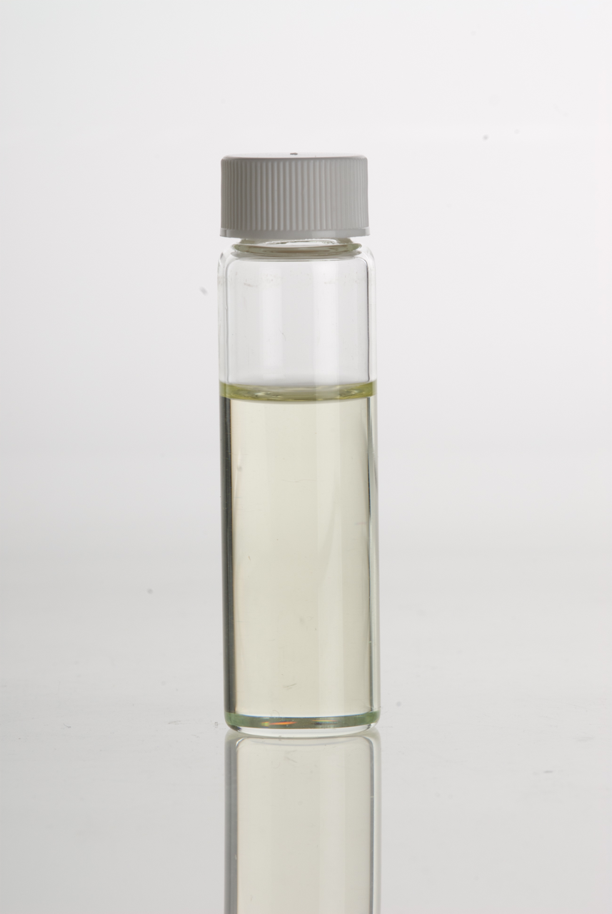 Dorado Azul (Hyptis suaveolens) Essential Oil in clear glass vial